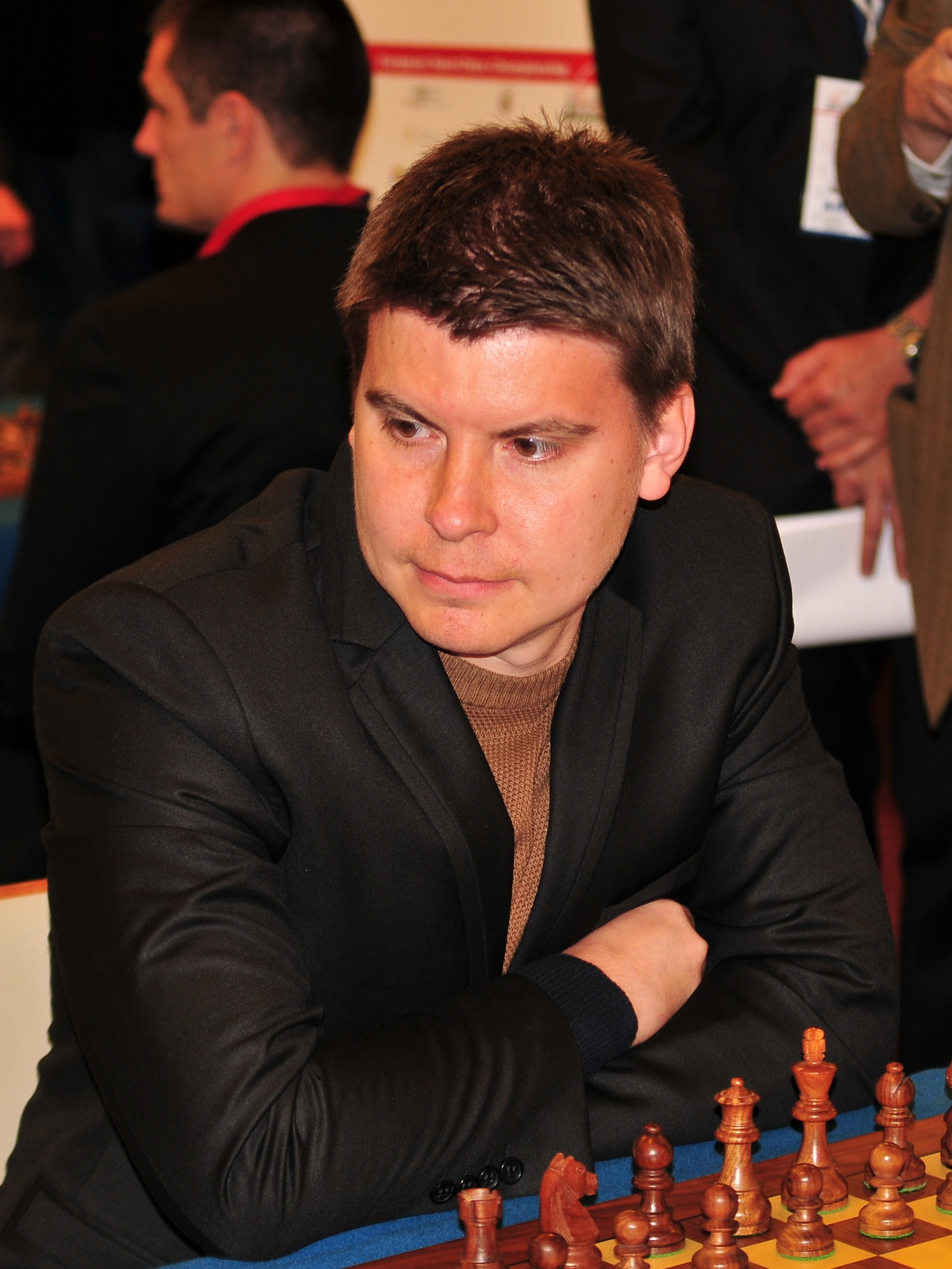 GM Krasimir Rusev, European Chess Team Championship Warsaw 2013